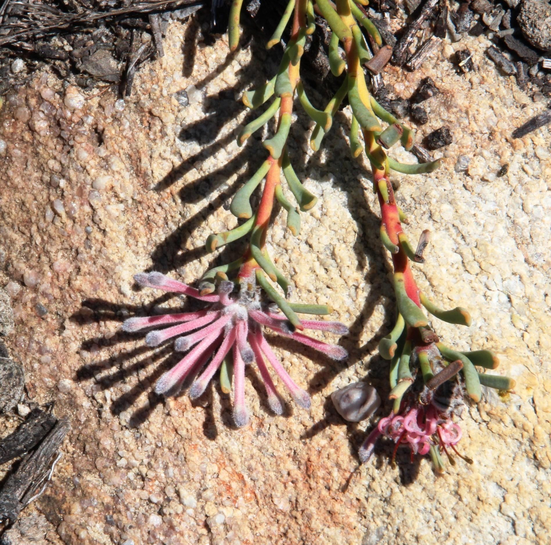 One stem with flower buds, and one flowering, of the Montagu vexator, Vexatorella obtusata subsp. obtusata, photographed by Tony Rebelo on 10 October 2015 at the track to the summit, west of the Driekuilen Dam at Driekuilen Nature Reserve